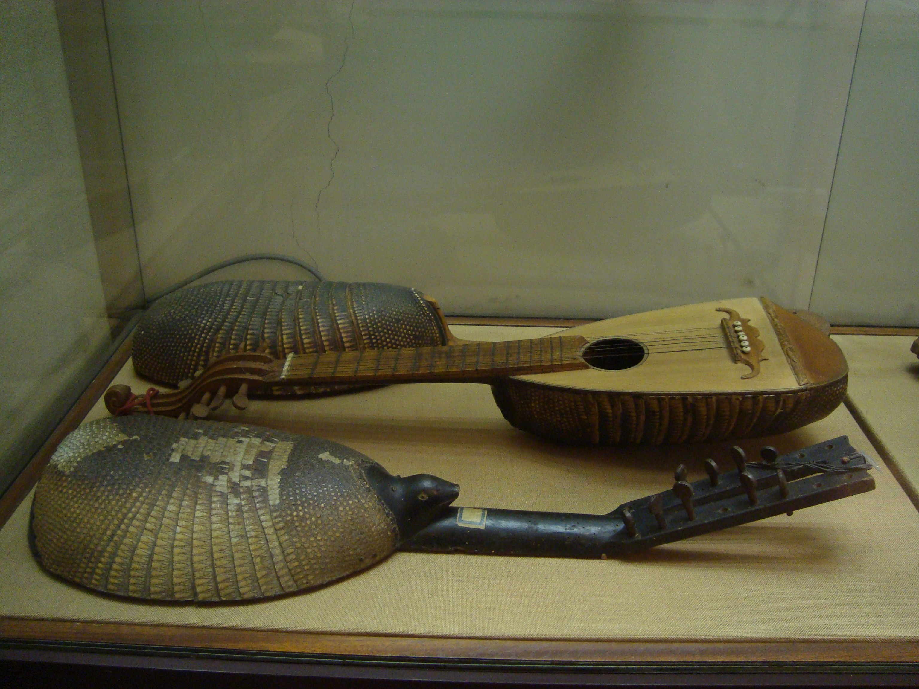 Old Charango, Museo degli Strumenti Musicali in Rome